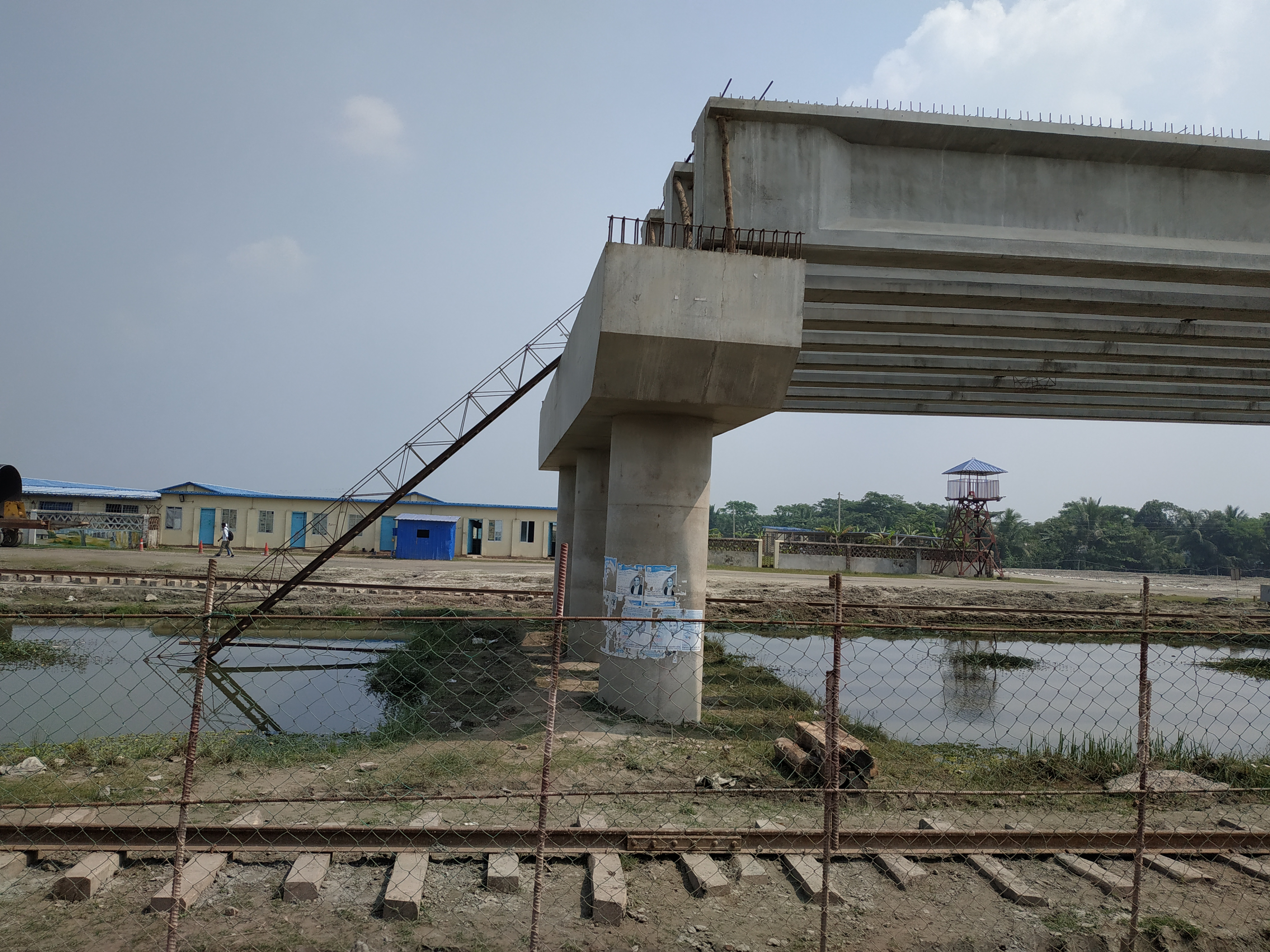 Payra Bridge or Lebukhali Bridge is an under-construction bridge situated on Payra - Buriswar river.